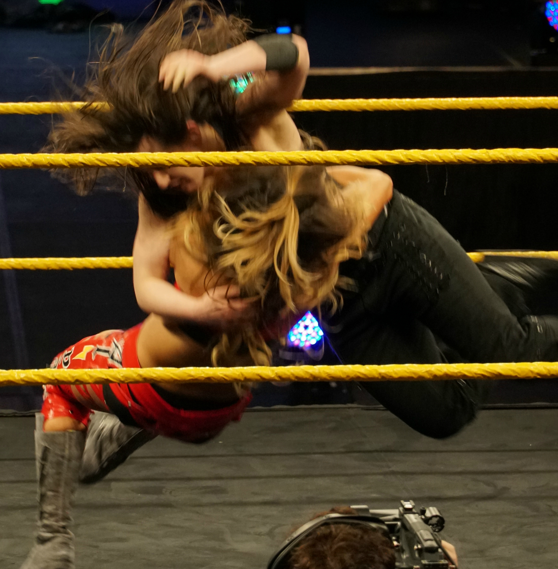 Nikki Cross performing a running crossbody on Aliyah in April 2018